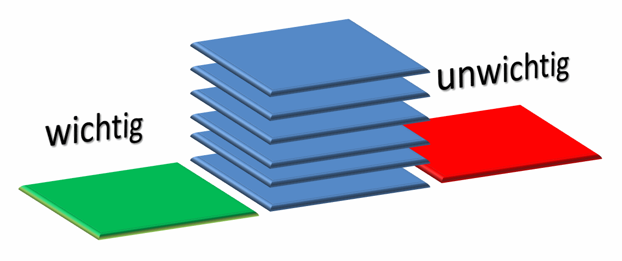 Binary Priorisation - Stage 2